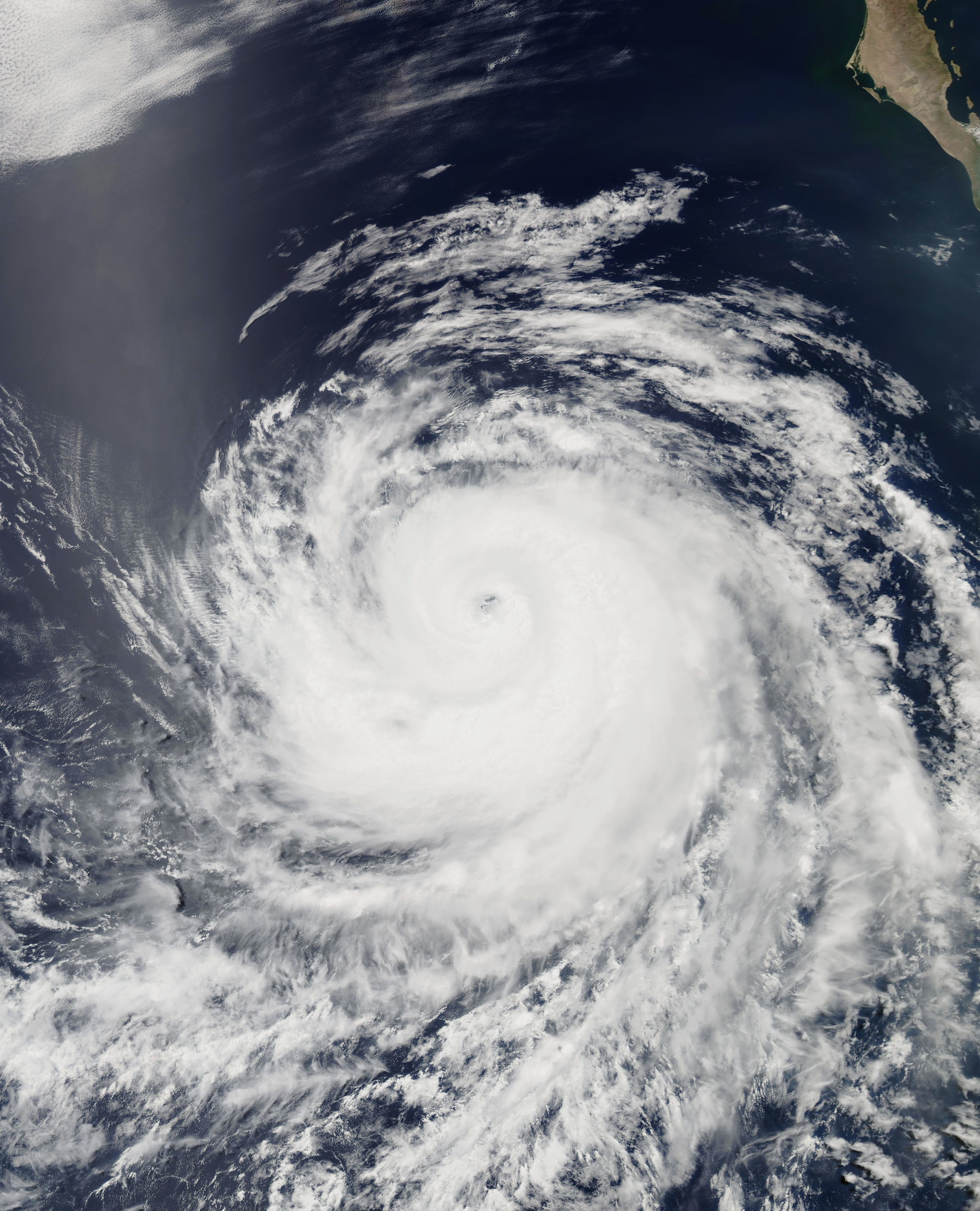 Hurricane Fabio at peak intensity southwest of the Baja California Peninsula on July 3, 2018